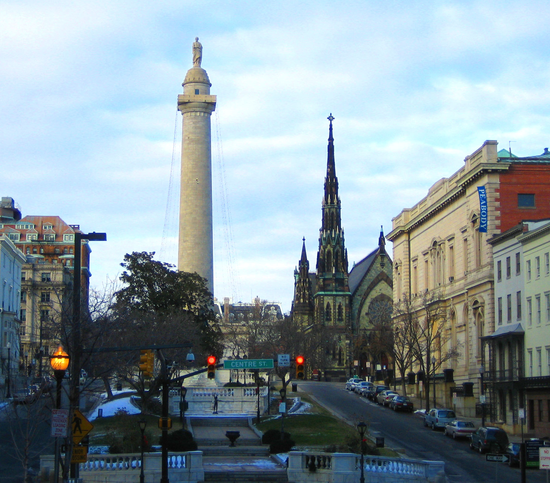 A view of Mt.Vernon from Charles Street, Baltimore.